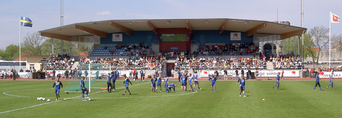 Gutavallen with the Swedish World Cup team.